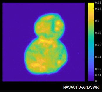 Ultima Thule - Reflectivity Variations - usually dark but variations in brightness shown 2 January 2019